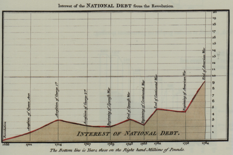 Interest of the British national debt in the 18th Century